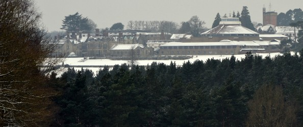 The British public boarding school with snow.